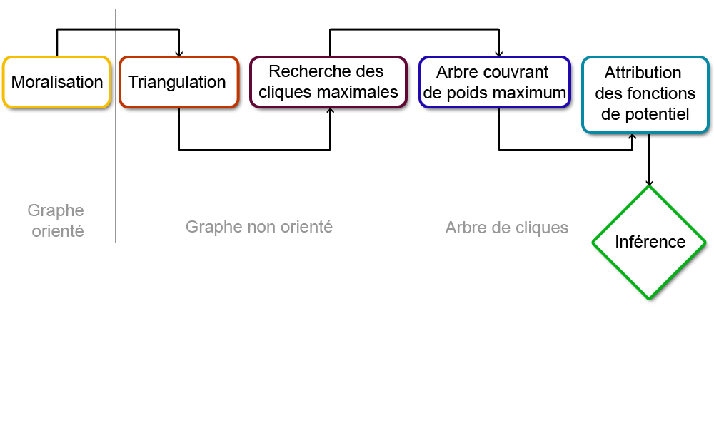 List of algorithms for obtaining a Junction Tree (tree decomposition)